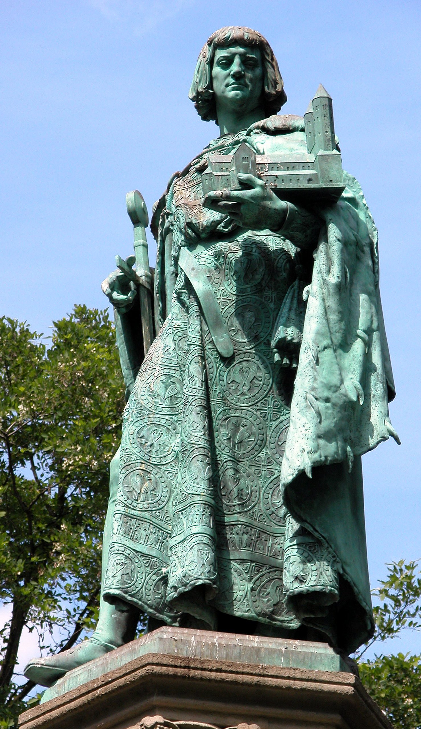 Braunschweig, Germany: Henry the Lion on Henry’s Fountain.